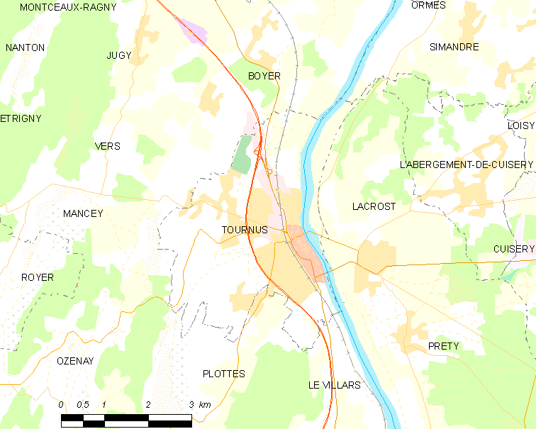 Map of French municipality